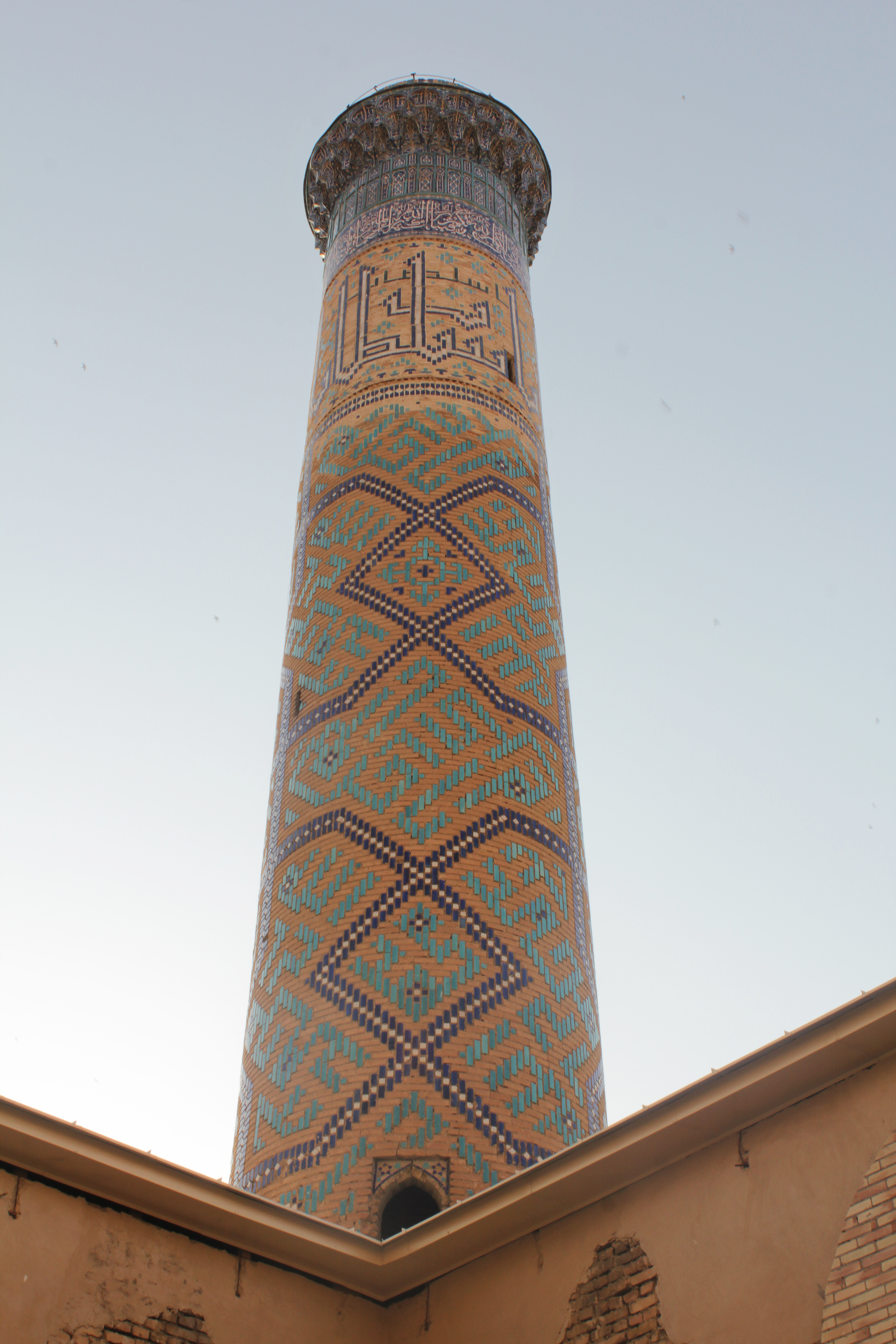 Part of Bibi Khonym mosque in Samarkand, Uzbekistan